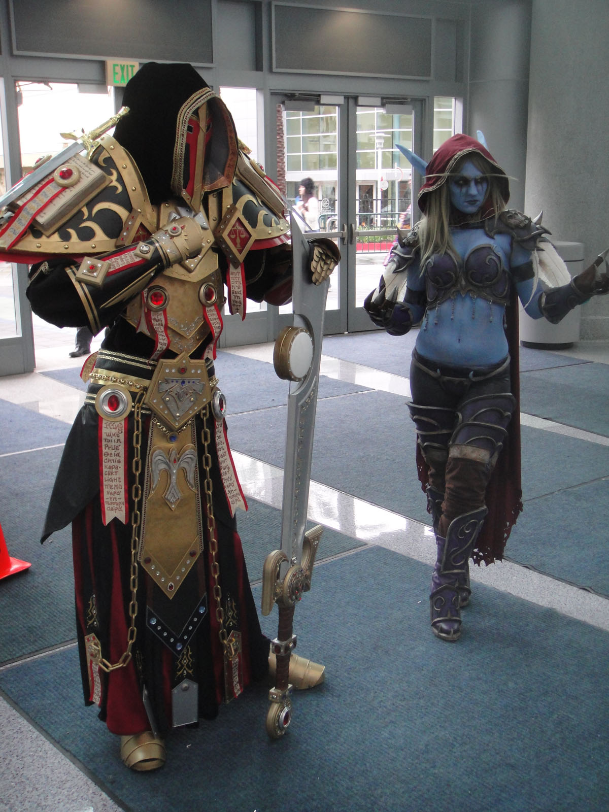 Cosplay of Warcraft characters (left: Tier 2 Paladin; right: Sylvanas Windrunner) at WonderCon 2012